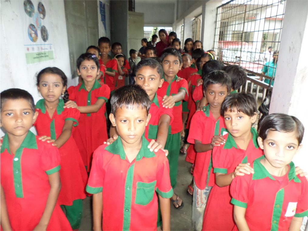 আনন্দস্কুলের শিক্ষার্থী